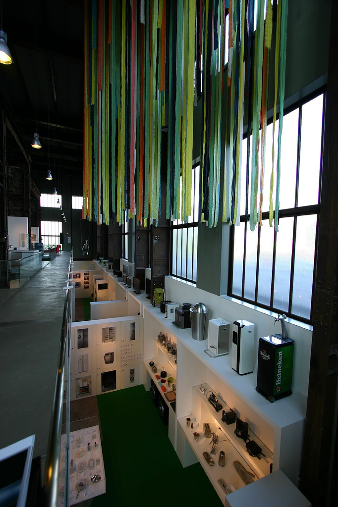 Red dot design museum interior